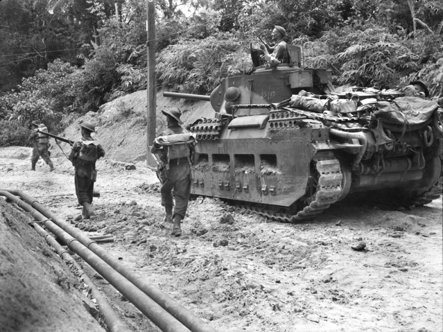 AWM Caption: TARAKAN ISLAND, BORNEO, 1945-05-06. MEMBERS OF C COMPANY, 2/48 INFANTRY BATTALION MOVE FORWARD PAST A C SQUADRON, 2/9 ARMOURED REGIMENT MATILDA TANK TO SUPPORT THE ATTACK ON SKYES FEATURE. IDENTIFIED PERSONNEL ARE:- PRIVATE T.W. LINCOLN, (1); J.B. REHN, TANK COMMANDER, (2).